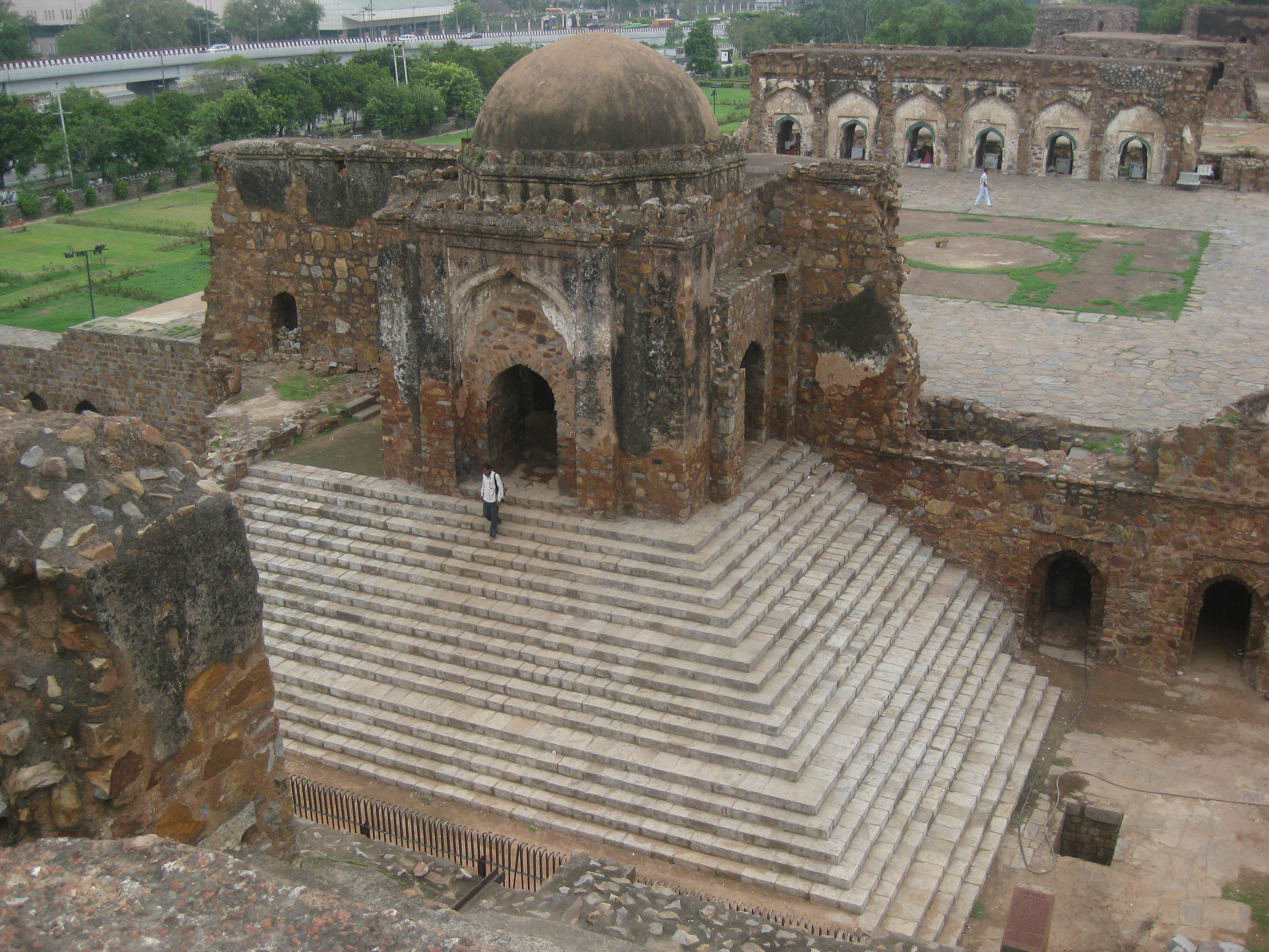 Kotla Ferozabad, or Feroz Shah Kotla (with the remaining walls, bastions and gateways and gardens, the old Mosque, and well and all other ruins buildings it contains.